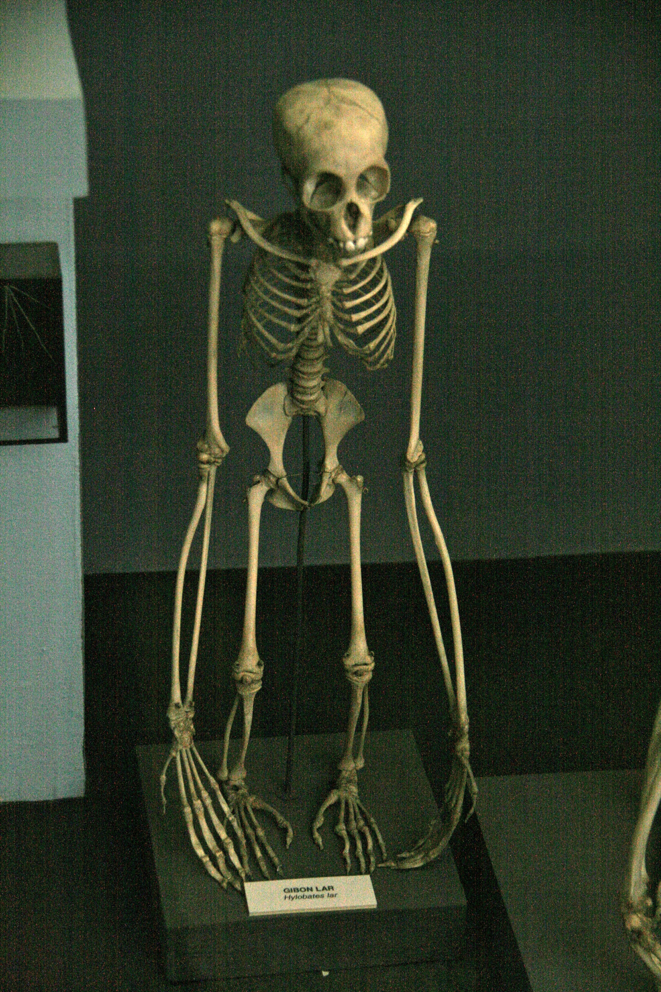 Hylobates Lar Bones in National Museum in Prague